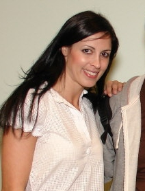 Israeli actress Orli Shoshan.